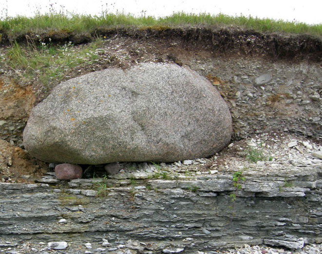 Raised beach and glacial erratics, Saaremaa, Estonia.